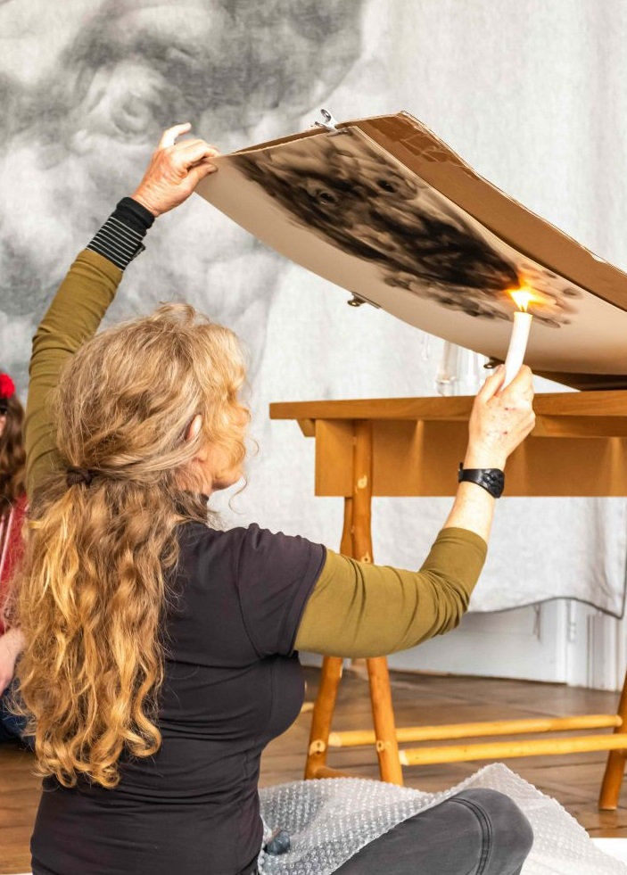 Diane Victor drawing a smoke drawing, Nontron, France